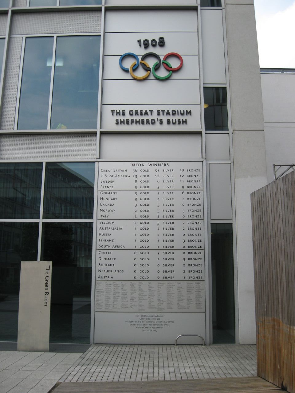 Medals board of 1908 Olympics